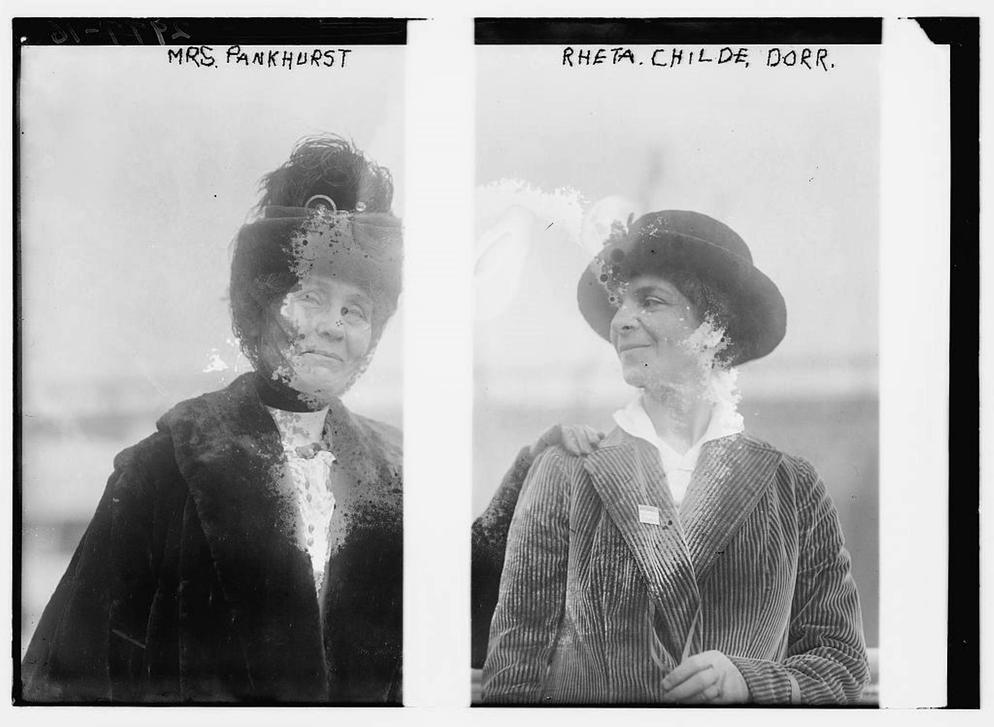 Mrs. Pankhurst and Rheta Childe Dorr [between ca. 1910 and ca. 1915] 1 negative : glass ; 5 x 7 in. or smaller. Notes: Title from unverified data provided by the Bain News Service on the negatives or caption cards. Forms part of: George Grantham Bain Collection (Library of Congress). Format: Glass negatives. Repository: Library of Congress, Prints and Photographs Division, Washington, D.C. 20540 USA, General information about the Bain Collection is available at Persistent URL: Call Number: LC-B2- 2977-16